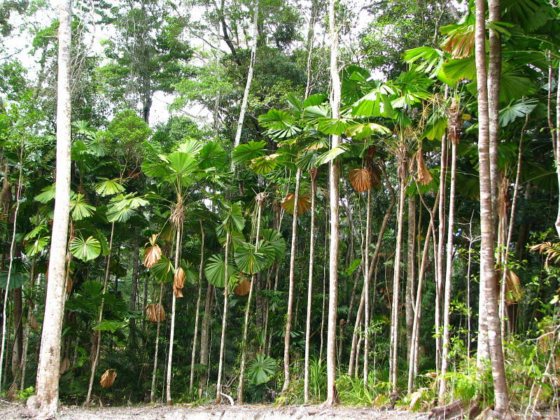 In Acacia/rainforest transition forest, in a residential subdivision off Black Mountain Road, Kuranda, north Queensland.